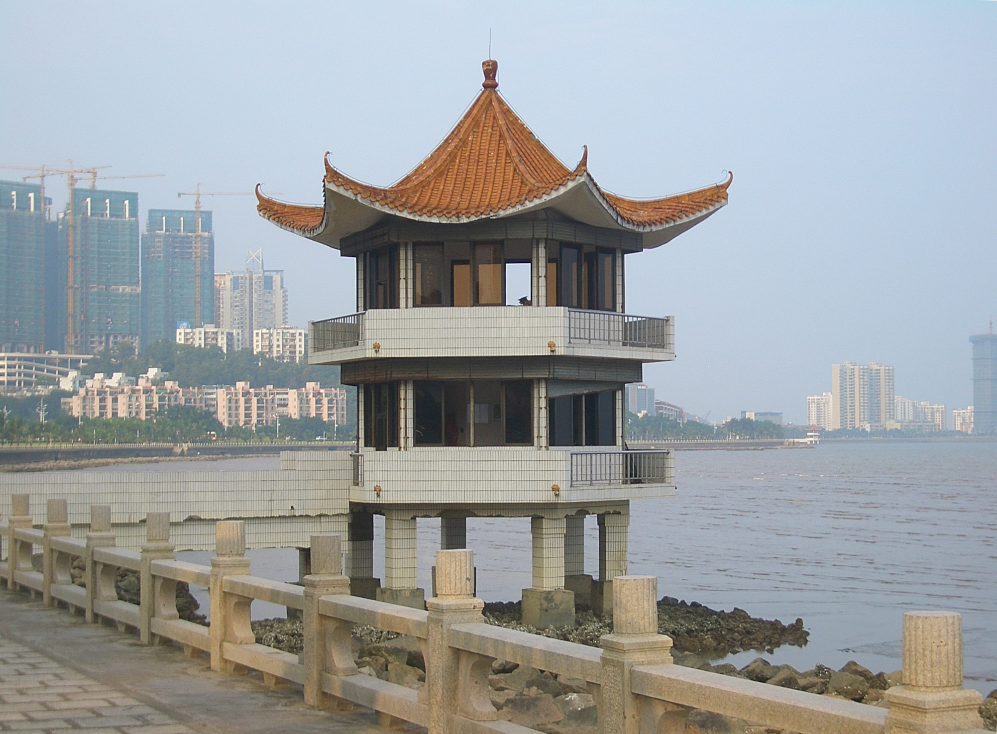 Qinglü Embankment in Zhuhai, along the shore of the Pearl River Estuary. Looking north from Gongbei toward Jiuzhou Harbor. The pagoda-like booth is for the border guards (one of whom can be seen through the window)